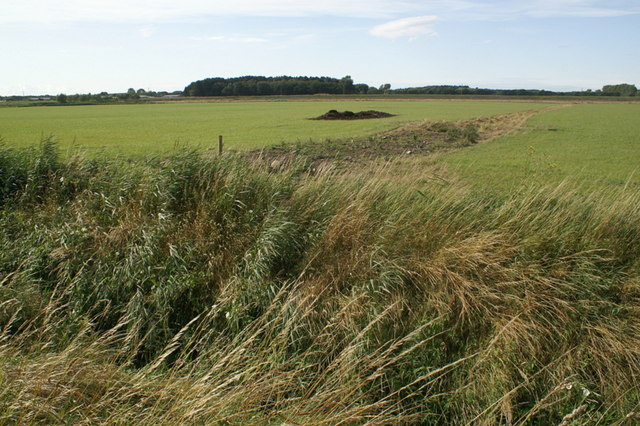 Downholland Moss Looking north towards Formby Moss.